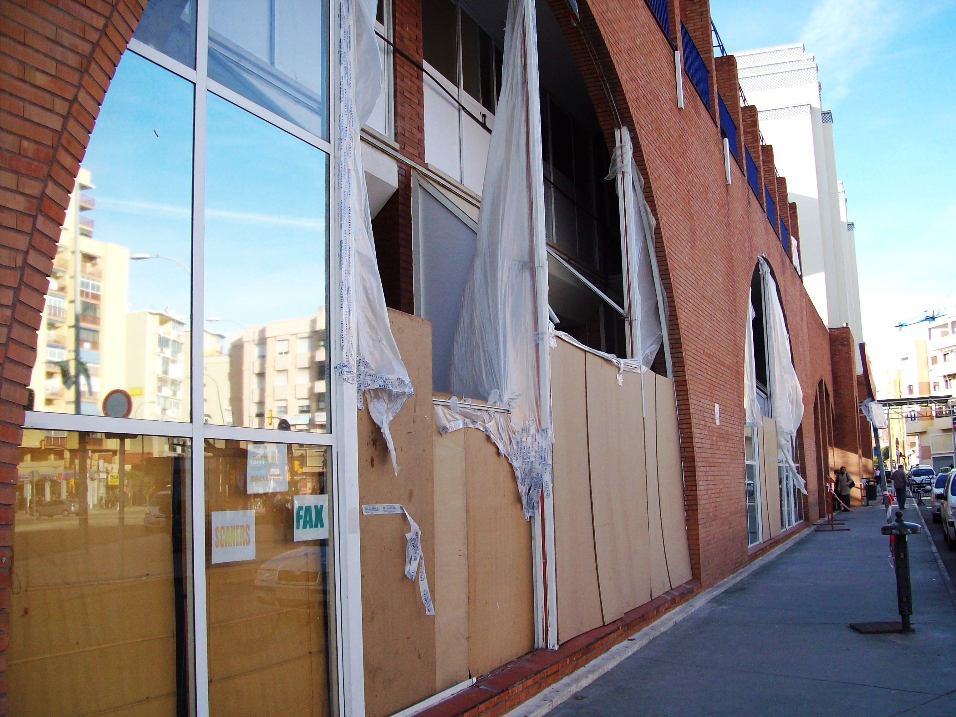 Malaga bus and coach station after tornado in 2009 (Spain)